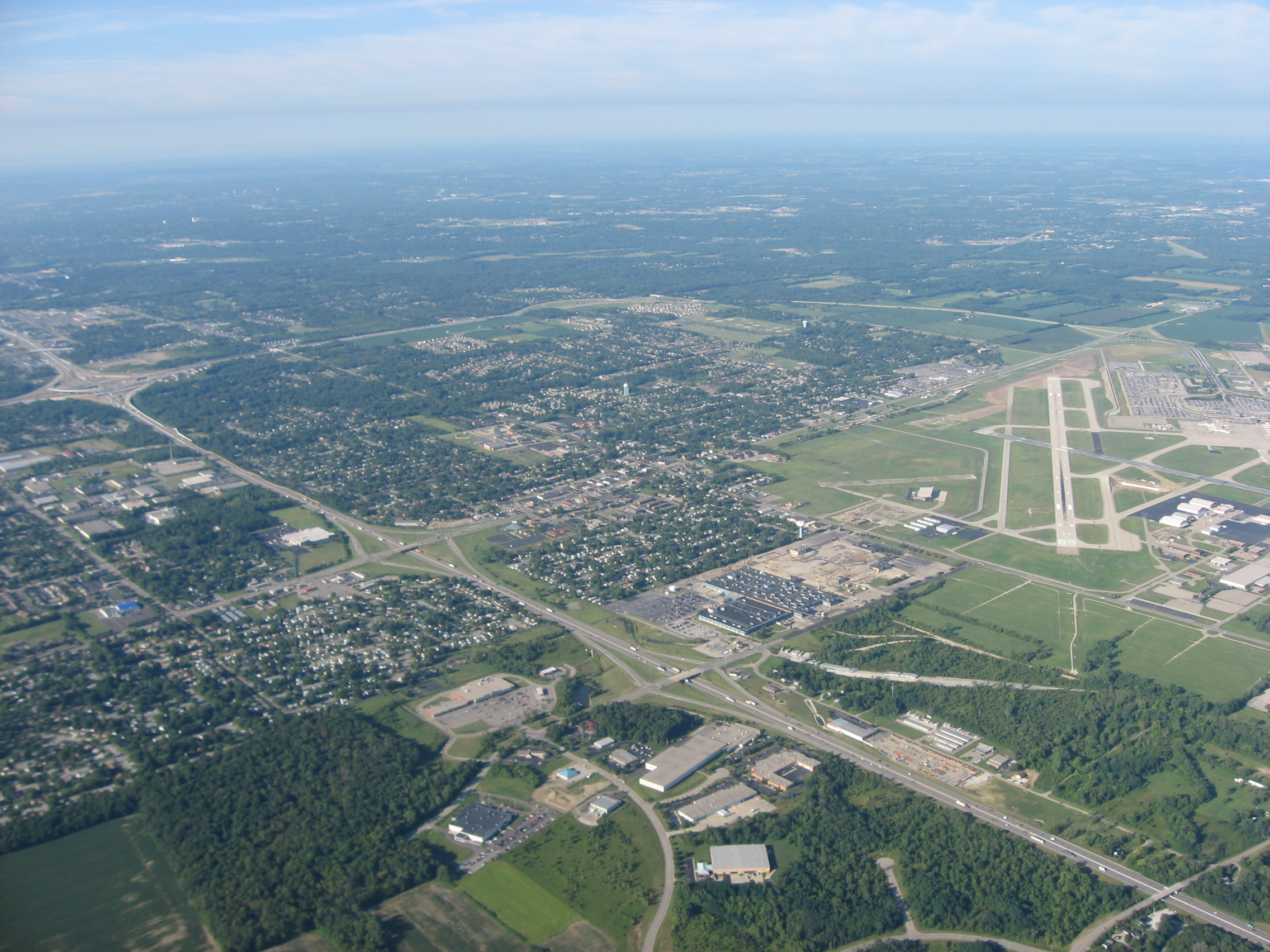 Aerial view of Vandalia, a city in Montgomery County, Ohio, United States, with the Dayton International Airport visible to the right. Interstate 75 is visible as the major highway in the middle of the picture. Picture taken from a Diamond Eclipse light airplane at an altitude of 4,490 feet MSL and a bearing of approximately 235º.